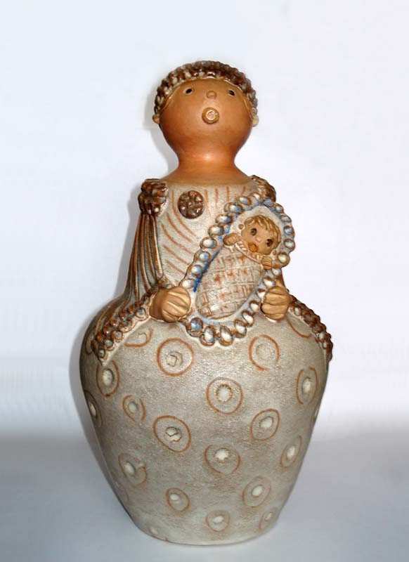 "Mother", ceramics of Ilona Kiss Roóz, Hungary